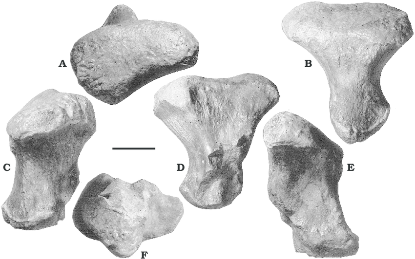 Sibirotitan metatarsal I, PM TGU 16/0−8, from Averianov et al. (2002)